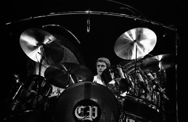 Maple Leaf Gardens, Toronto, Feb. 3, 1978